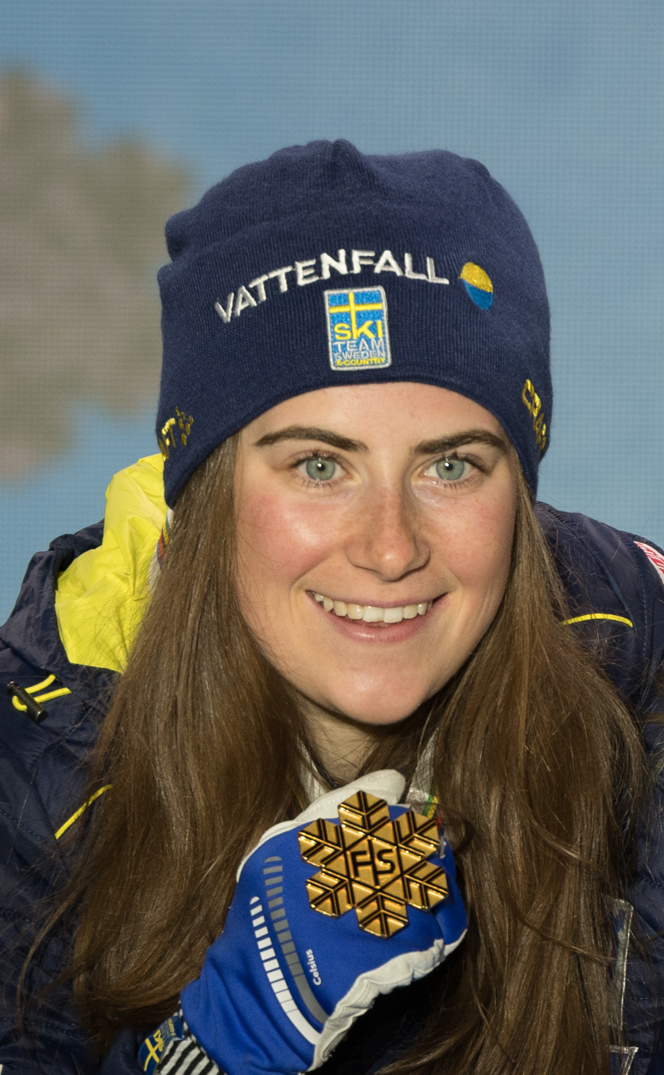 FIS Nordic Wolrd Ski Championships Seefeld 2019 - Medal Ceremony at the Medal Plaza. Picture shows Ebba Andersson (SWE).